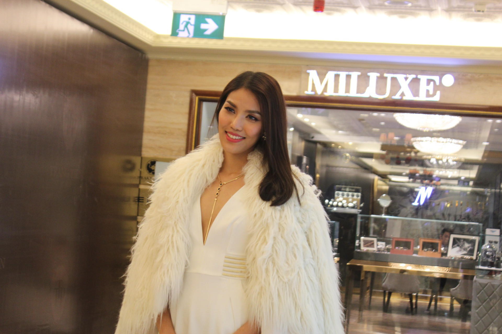 Lan Khuê tham dự sự kiện của Resa tại Tràng Tiền Plaza